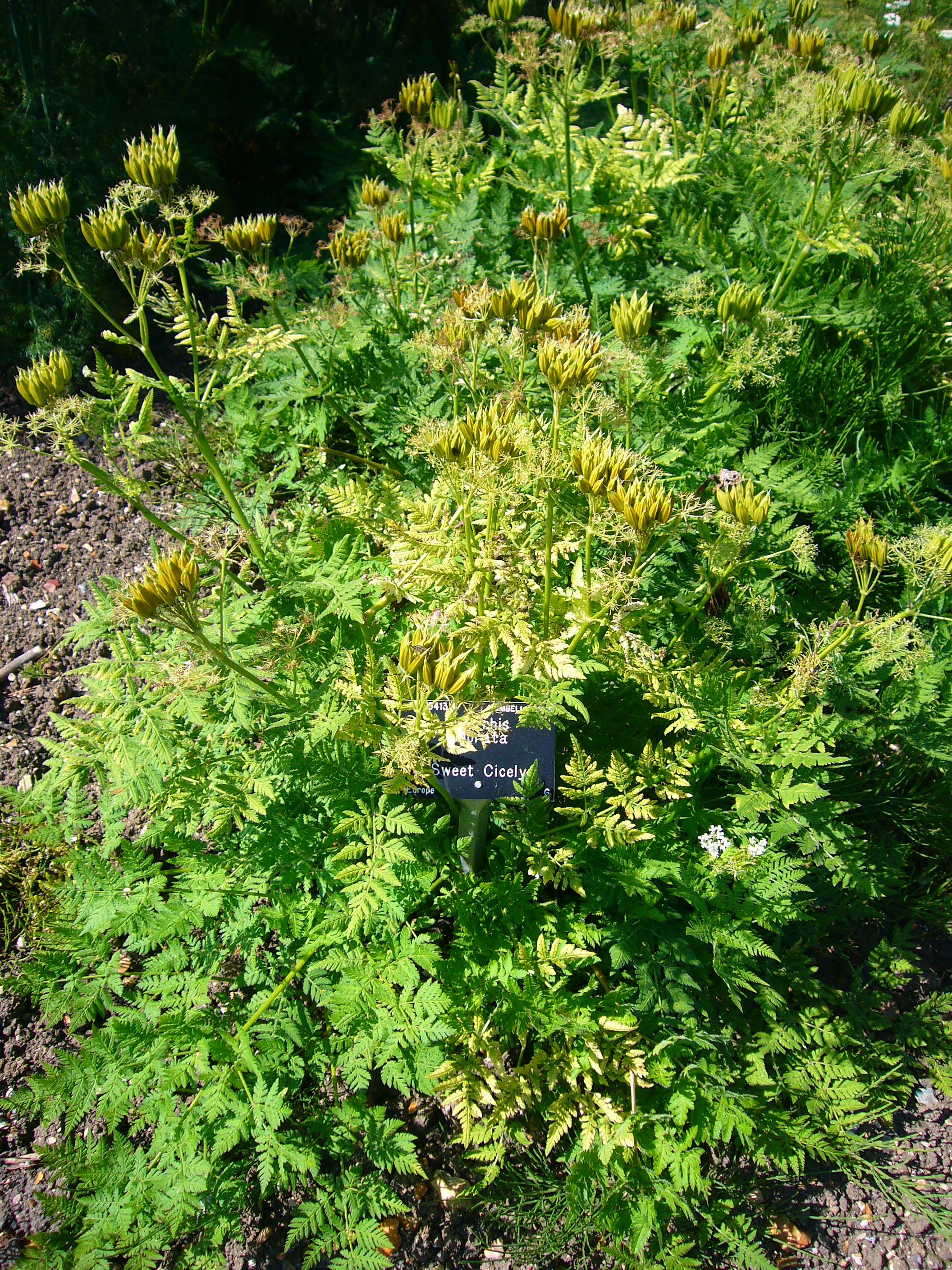 Myrrhis odorata 'sweet cicely' (plant) (photo taken in the Cambridge University Botanic Garden)